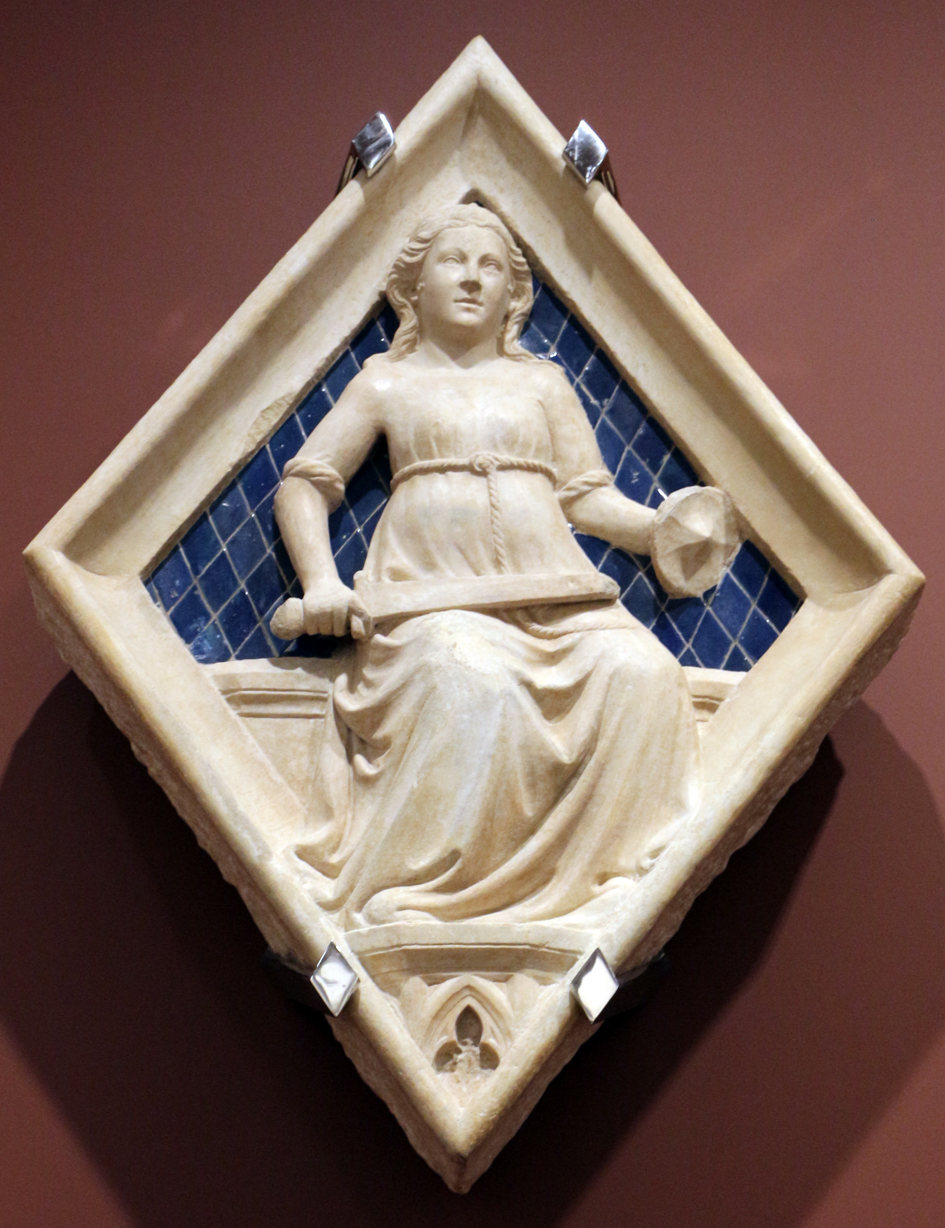 Reliefs of the Giotto's Belltower